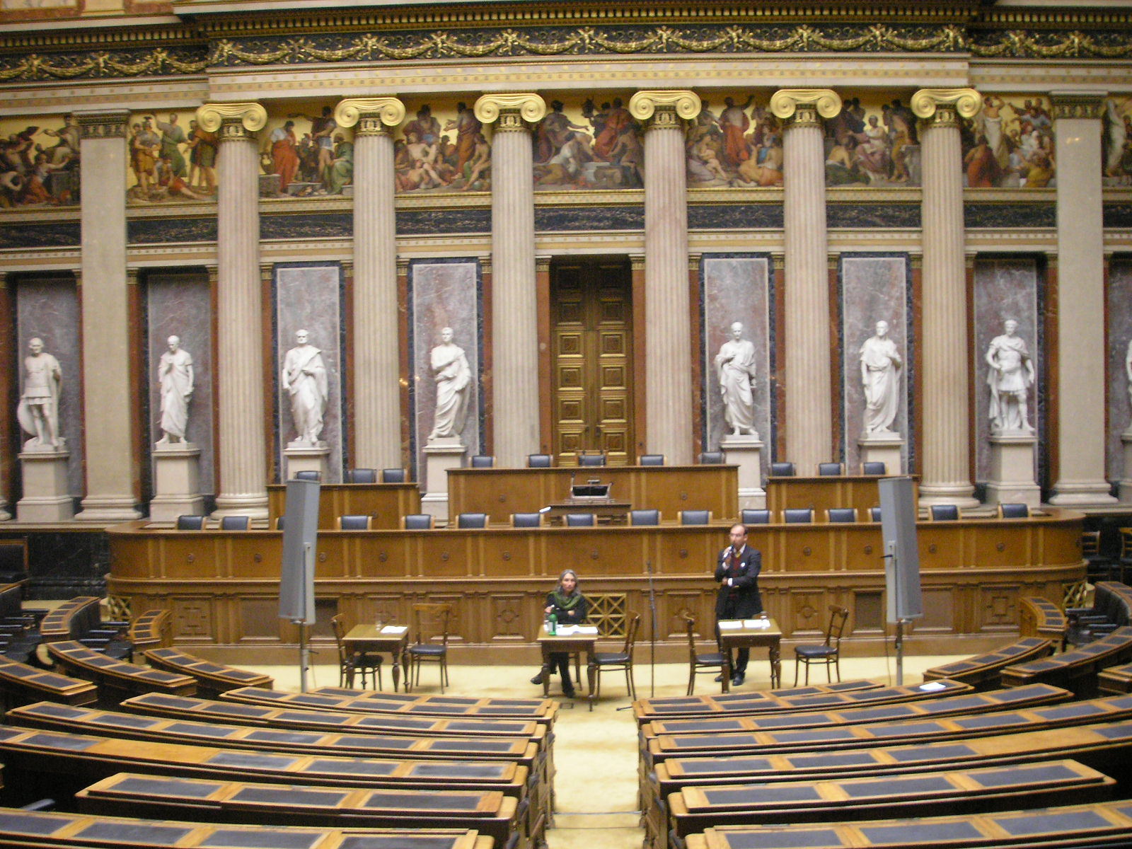 Debating Chamber of the former House of Deputies of Austria, in Vienna.